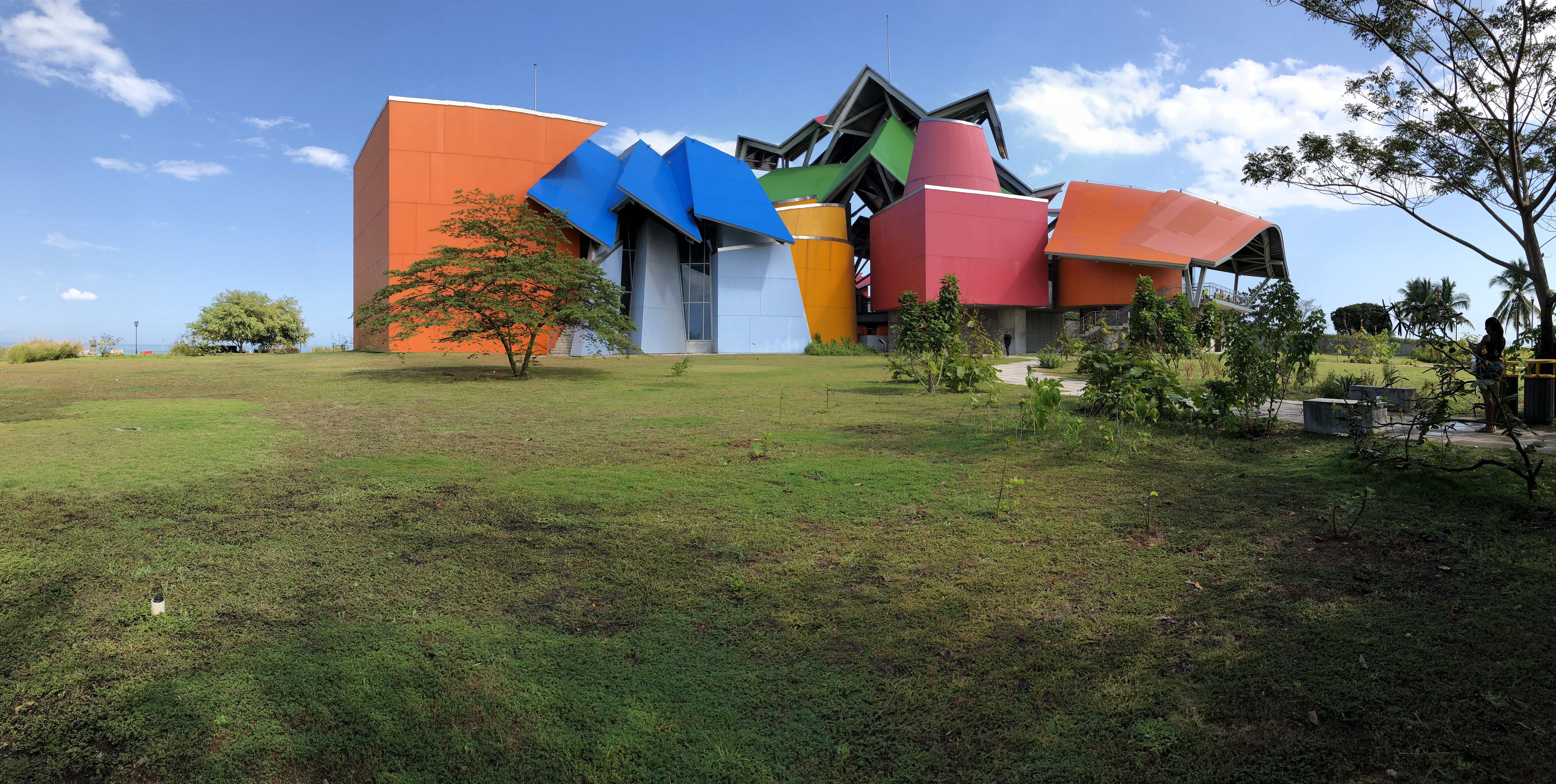 Biomuseo, Panama City, stereo pair left